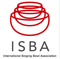 International Singing Bowl Association